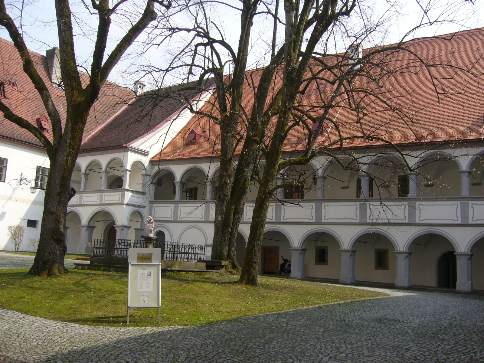 Schloss Scheibbs This media shows the natural monument in Lower Austria with the ID SB-024.